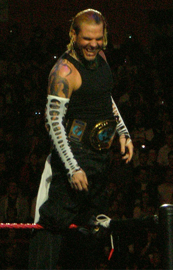 Jeff Hardy @ Sydney, Australia 'RAW' house show on the 9th of November '07